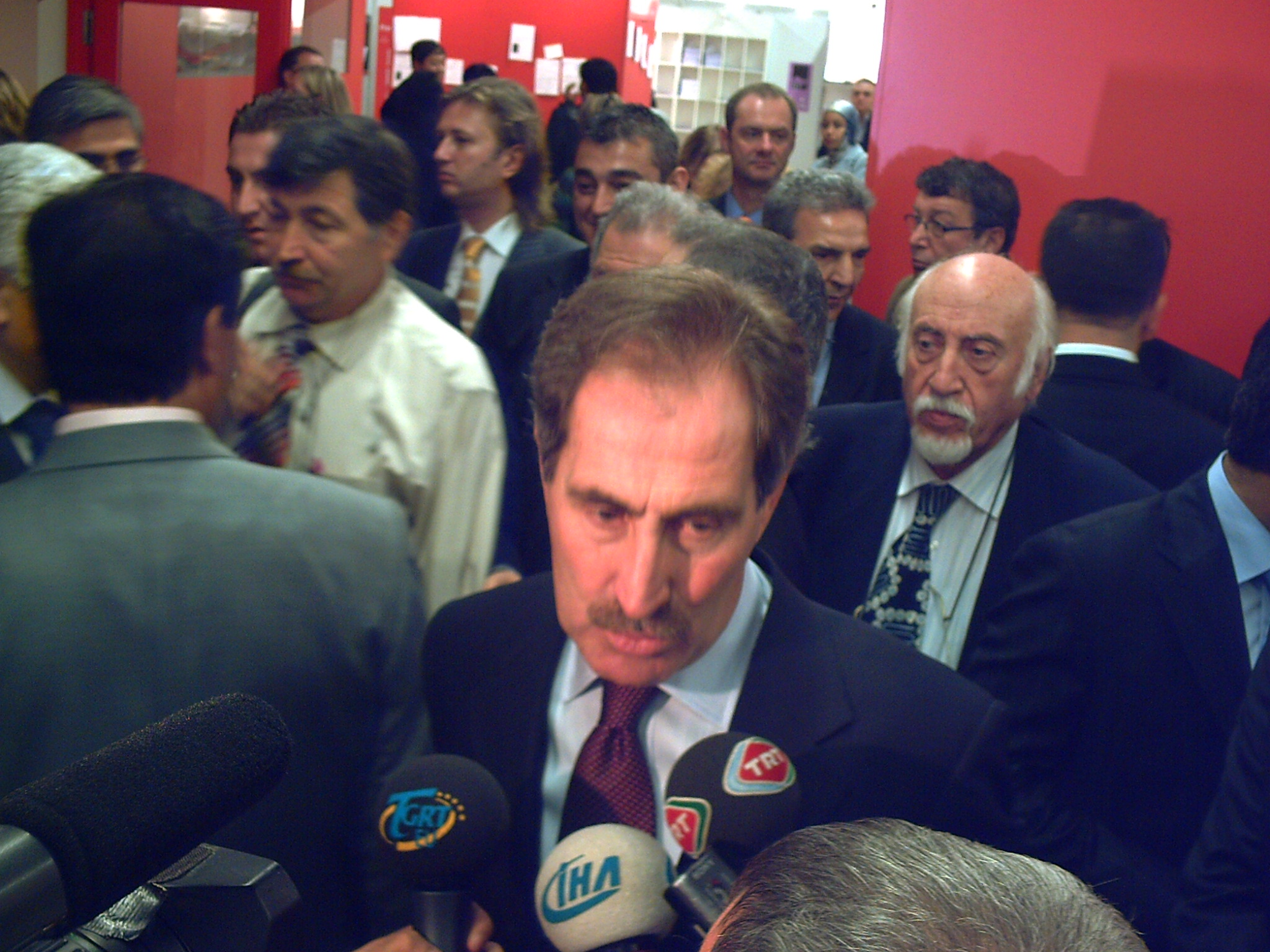 Ertuğrul Günay, Minister of Culture and Tourism of the Republic of Turkey, at the Press Conference on October 11, 2007, at the Frankfurt Book Fair, on the occasion of Turkey's 2008 Guest of Honour Appearance